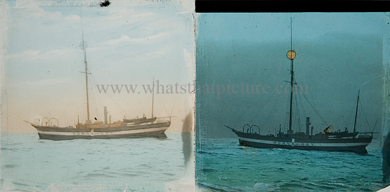 Actually copies of the same shot, but hand painted to show it as if by day and night. Think you can solve the mystery of these photographs? Join the Hull Trawler Challenge at Buy a selection of these Hull Trawler images on-line